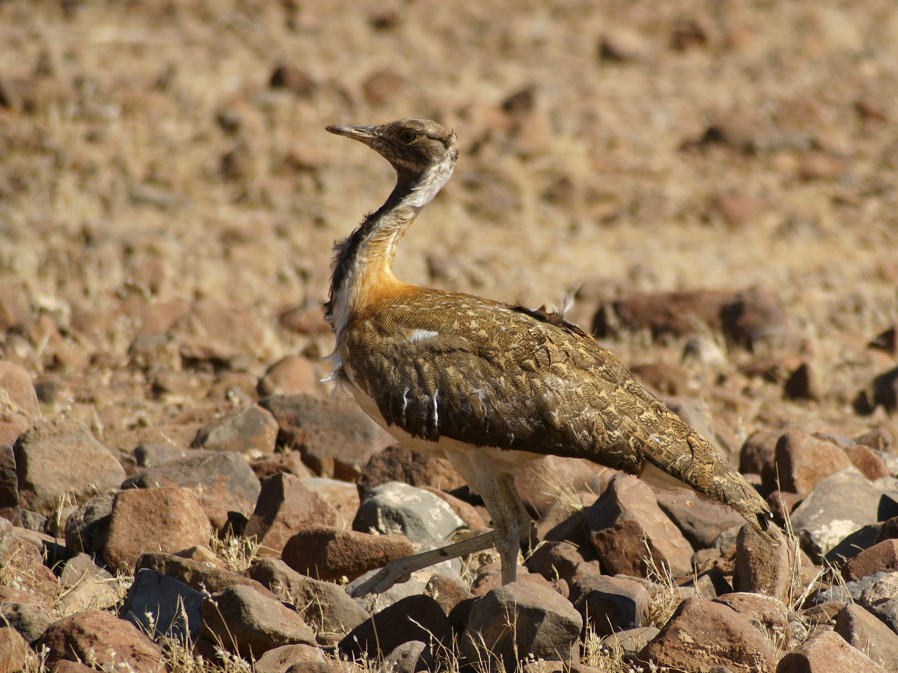 A male Ludwig's Bustard near Palmwag, Namibia